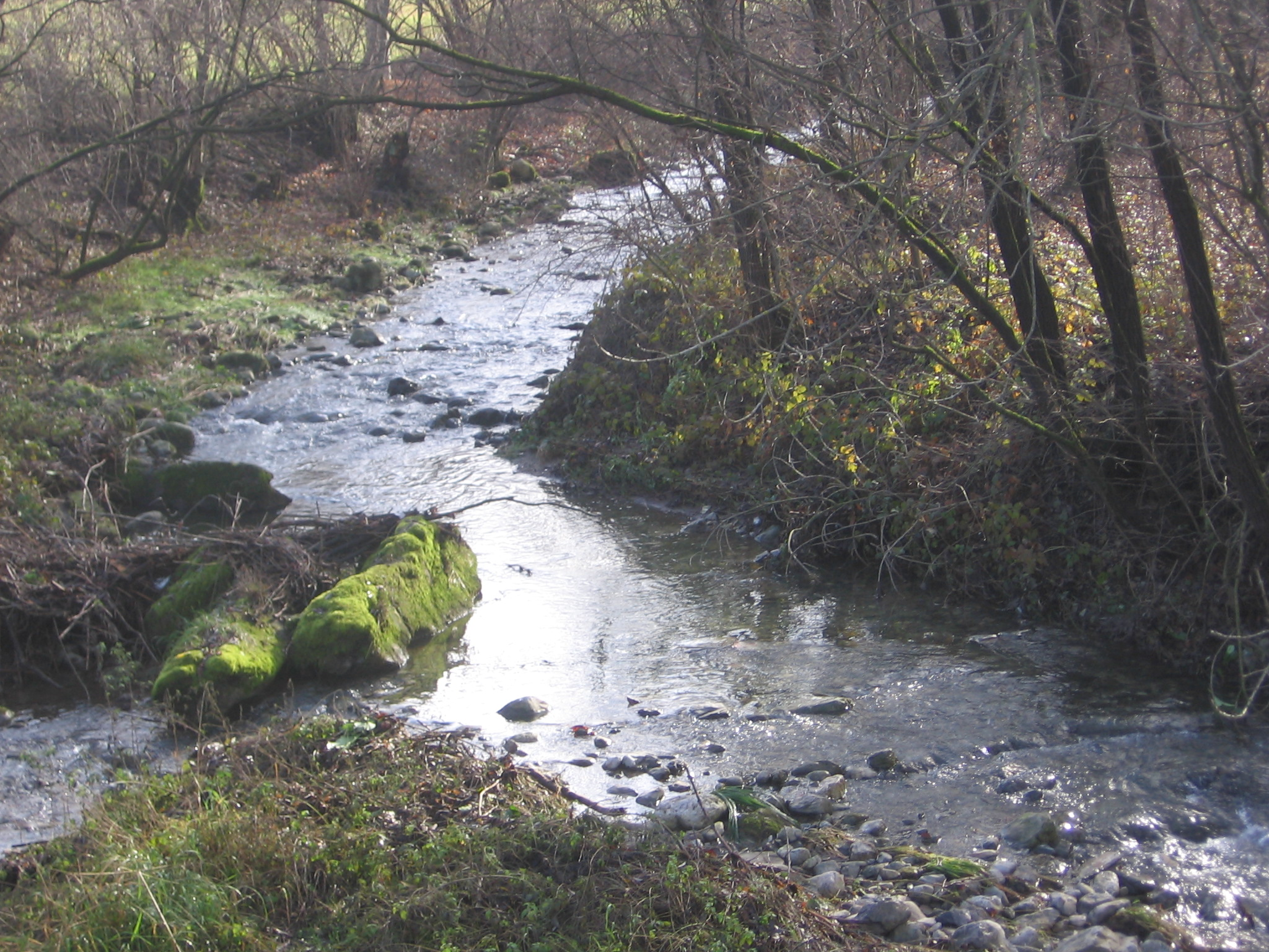 torrente Lujo, Albino, Bergamo, Italy